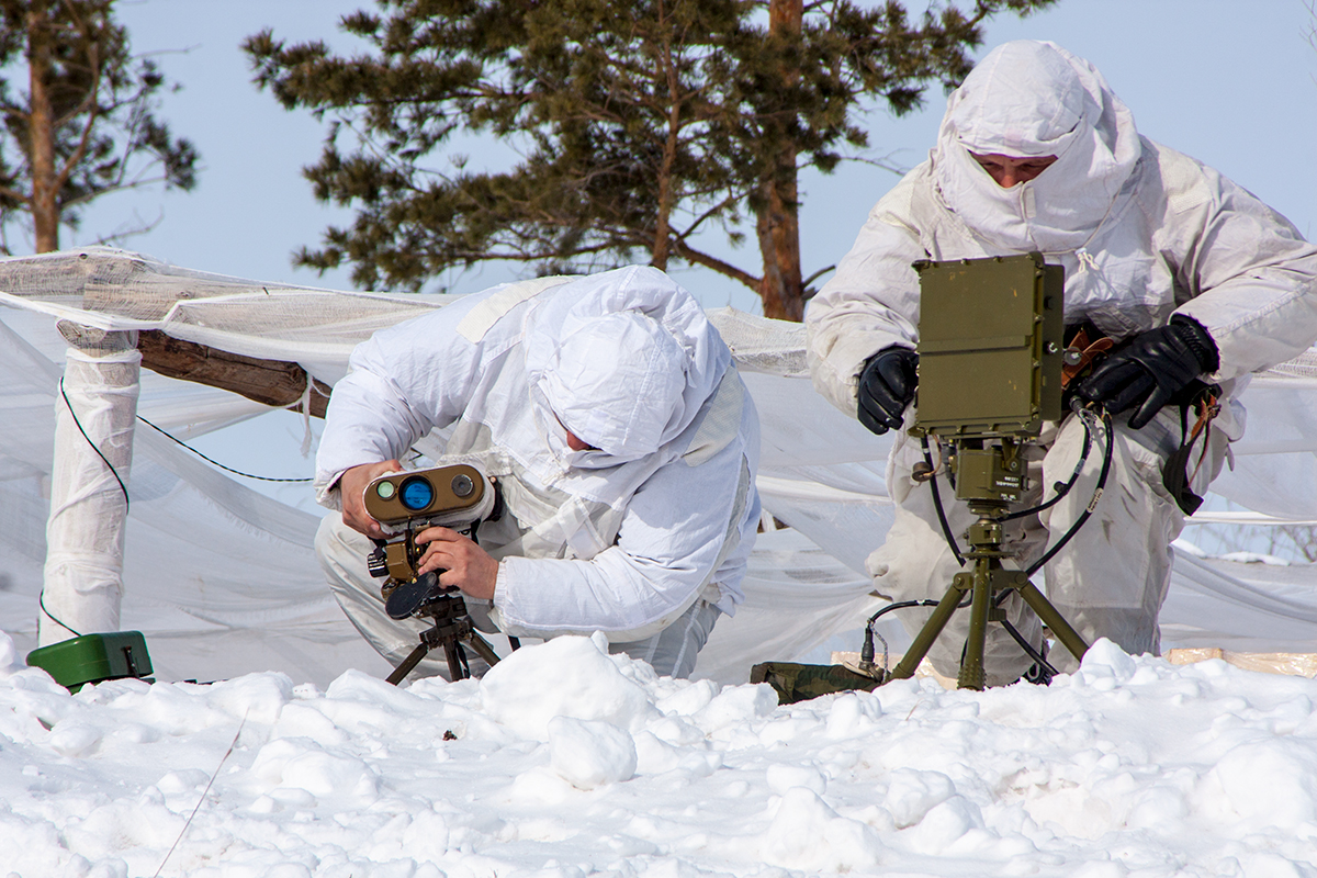 Exercise of the 3rd Motorized Rifle Division in Voronezh Oblast.